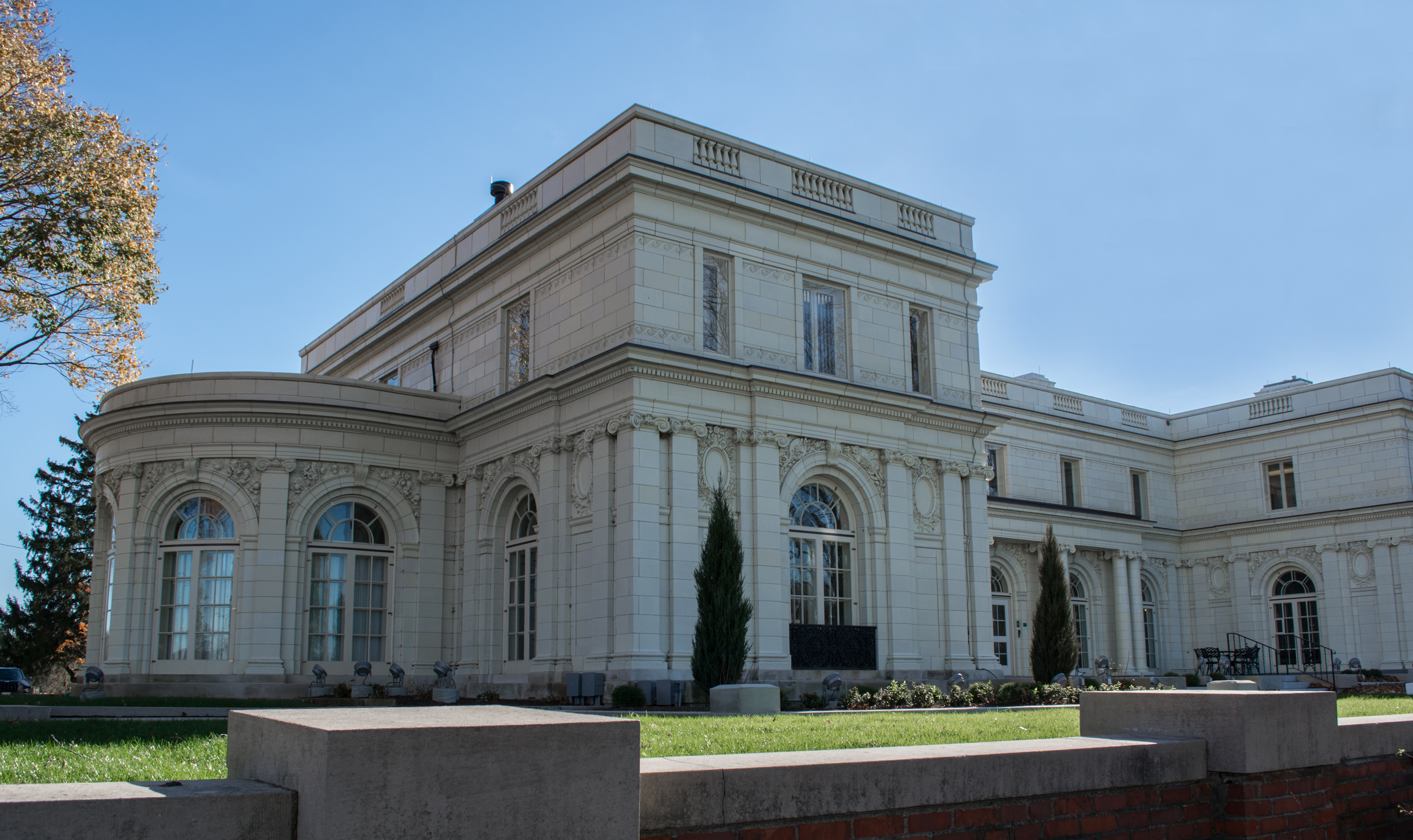 Coulallenby -- today known as Wickliffe City Hall. The mansion and gatehouse on the 54-acre estate was built by Harry C. Coulby. Coulby began working for Picklands Mather in 1886, a company which owned a fleet of steamship cargo vessels on the Great Lakes. By 1905, Coulby was running the company and was known as the "Czar of the Great Lakes" for his scheduling expertise. He founded his own firm, the Interlake Steamship Co., in 1913, and then purchased Pickands Mather and its company fleets of various names. His wife died in 1921. He died on January 17, 1929, at the age of 64. Coulby was Wickliffe's first mayor, serving a single term in 1916. The mansion served as the city hall. Coulallenby was designed in the Italianate Revival style by architect Frederick W. Striebinger, and was built by W.B. McAllister & Co. of Cleveland. The name of the estate is a conflation of the last names of Harry Coulby and his wife, May Allen Coulby. Construction began in 1911 and was complete in 1913. The $1 million mansion included 16 rooms with seven fireplaces, a formal gardens, a pond, a cow barn, a gatehouse (now the Wickliffe Police headquarters) and a park. The exterior is of white terra-cotta imported from Italy. In June 1929, the Sisters of Holy Humility of Mary purchased the Coulallenby and turned it into Marycrest, a girls' school. The mansion also was the site of the Convent of the Good Shepherd, which provided housing for the nuns. In 1954, the City of Wickliffe purchased Coulallenby for its city hall. It has remained the city's mayoral and council offices ever since. Coulallenby was listed on the National Register of Historic Places in 1979. The Wickliffe Police Department occupies the estate's former gatehouse.